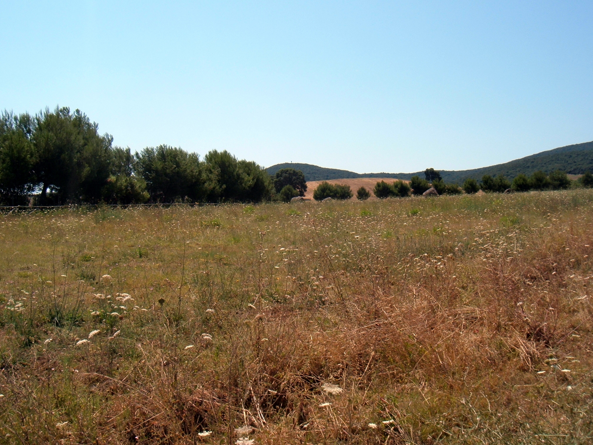 Necropolis of Populonia (Piombino, Italy)